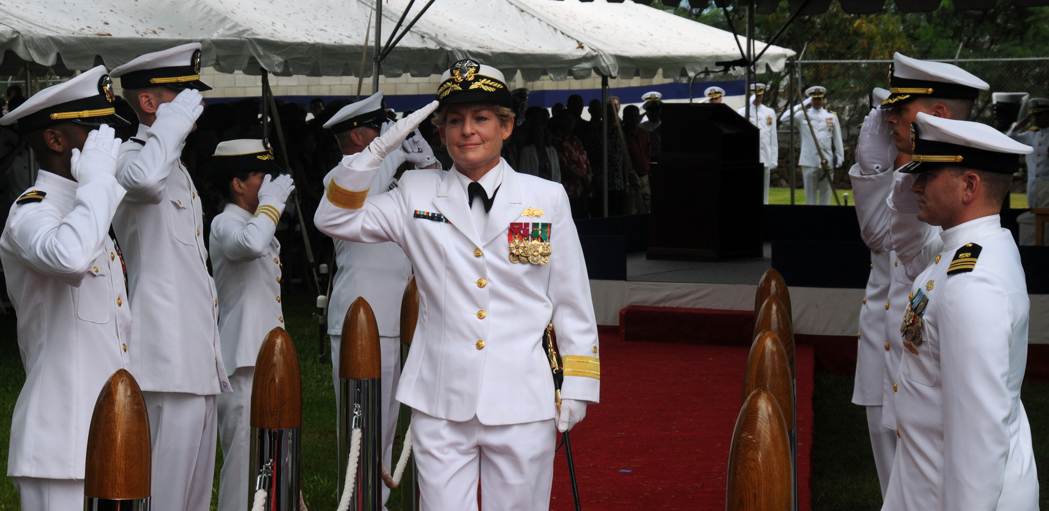 PEARL HARBOR (July 9, 2010) Rear Adm. Katherine Gregory walks through the sideboys after assuming command of Naval Engineering Command Pacific (NAVFAC PAC) during a change of command ceremony at Commander, U.S. Pacific Fleet Headquarters. Gregory is the first female flag officer in the Civil Engineer Corps. (U.S. Navy photo by Mass Communication Specialist 2nd Class Robert Stirrup/Released)